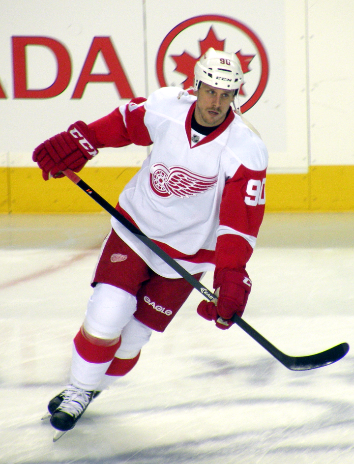 Detroit Red Wings forward Stephen Weiss prior to a National Hockey League game against the Calgary Flames.